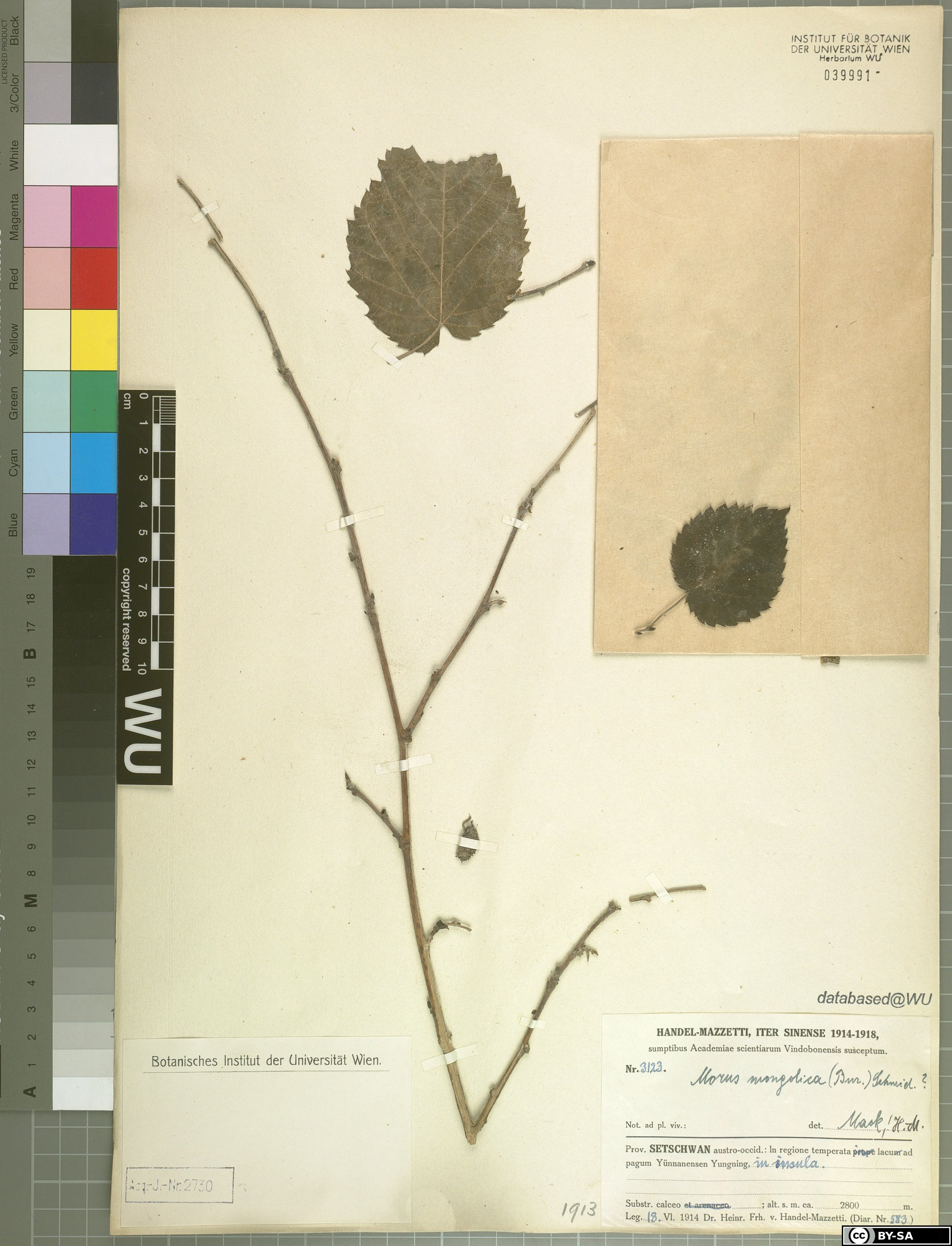 This is a picture of a dried [Morus mongolica] plant specimen from the University of Vienna's Institute for Botany, Herbarium WU. Collected by H. R. E. von Handel-Mazzetti; identified by K. K. Mackenzie